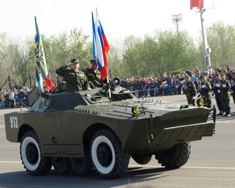 BRDM-1 on a parade in Russia.